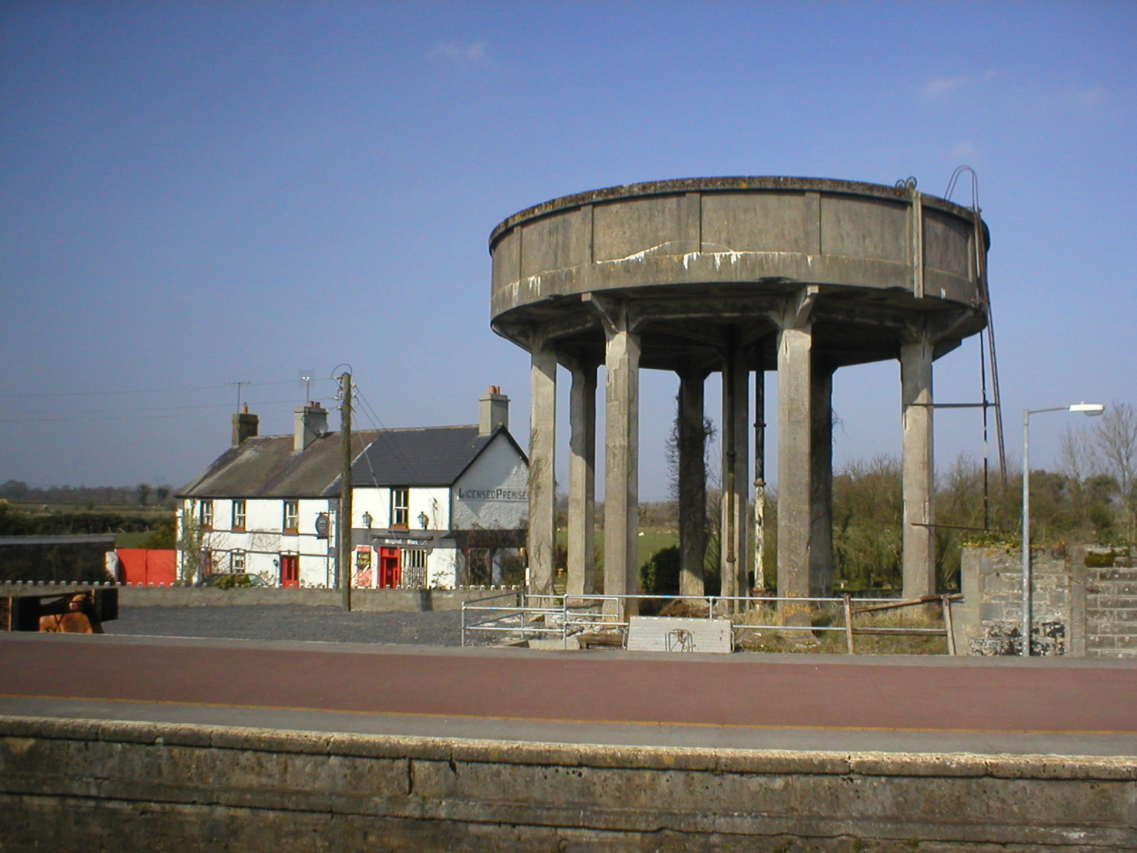 original digital image Ballybrophy water tower in 2002